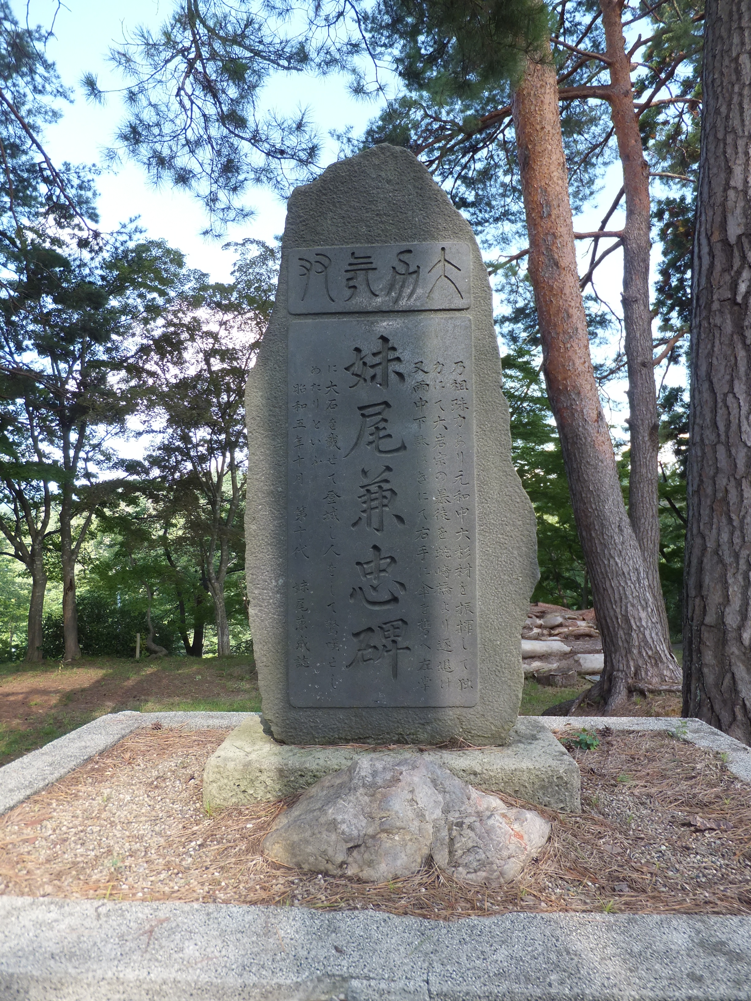 Stone monument of the SEO Kanetada in the Yokote Castle, in Yokote, Akita, Japan